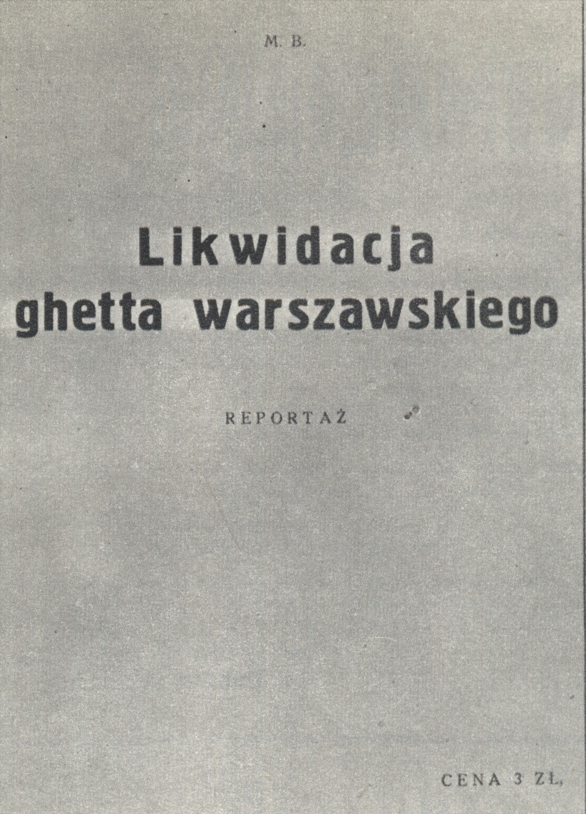 Front page of a Polish conspiratorial brochure about liquidation of the Warsaw Ghetto in summer 1942. This brochure was written by Antoni Szymanowski and issued by Polish Underground State.